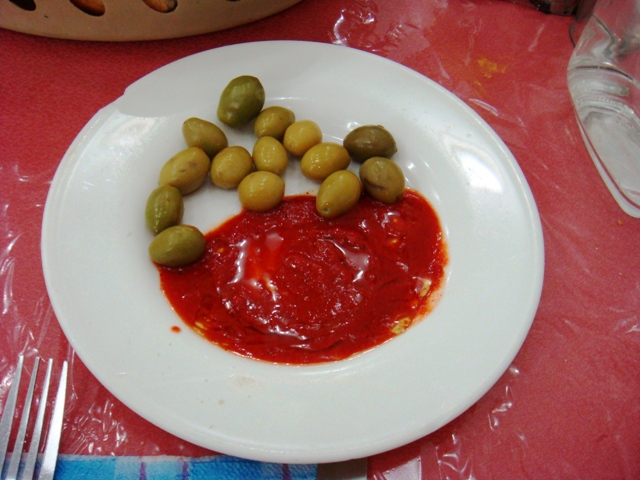 Harissa, a chili paste in olive oil. It is mainly used as an appetizer for Tunisian dish